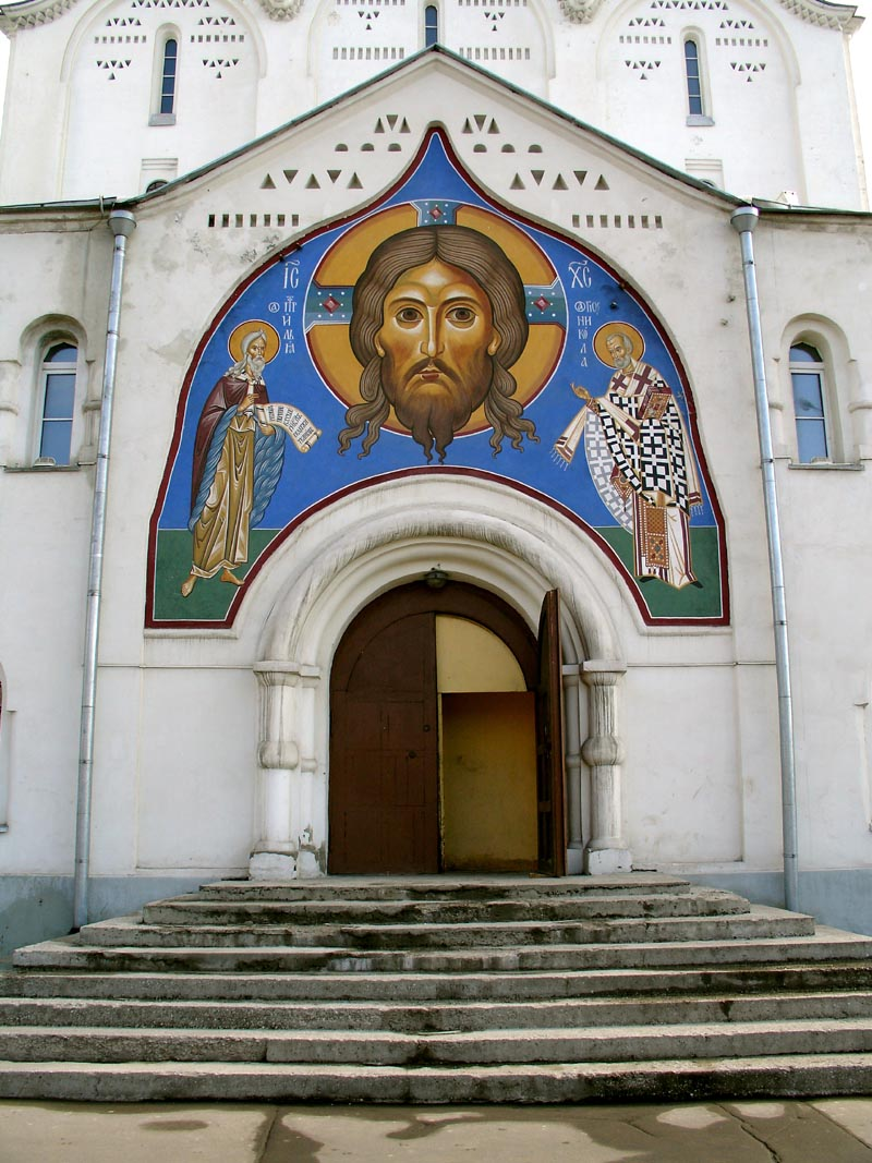 Old Belivers (Rogozhtsy) Church, St.Nicholas u Tverskoy Zastavy, Moscow, Russia